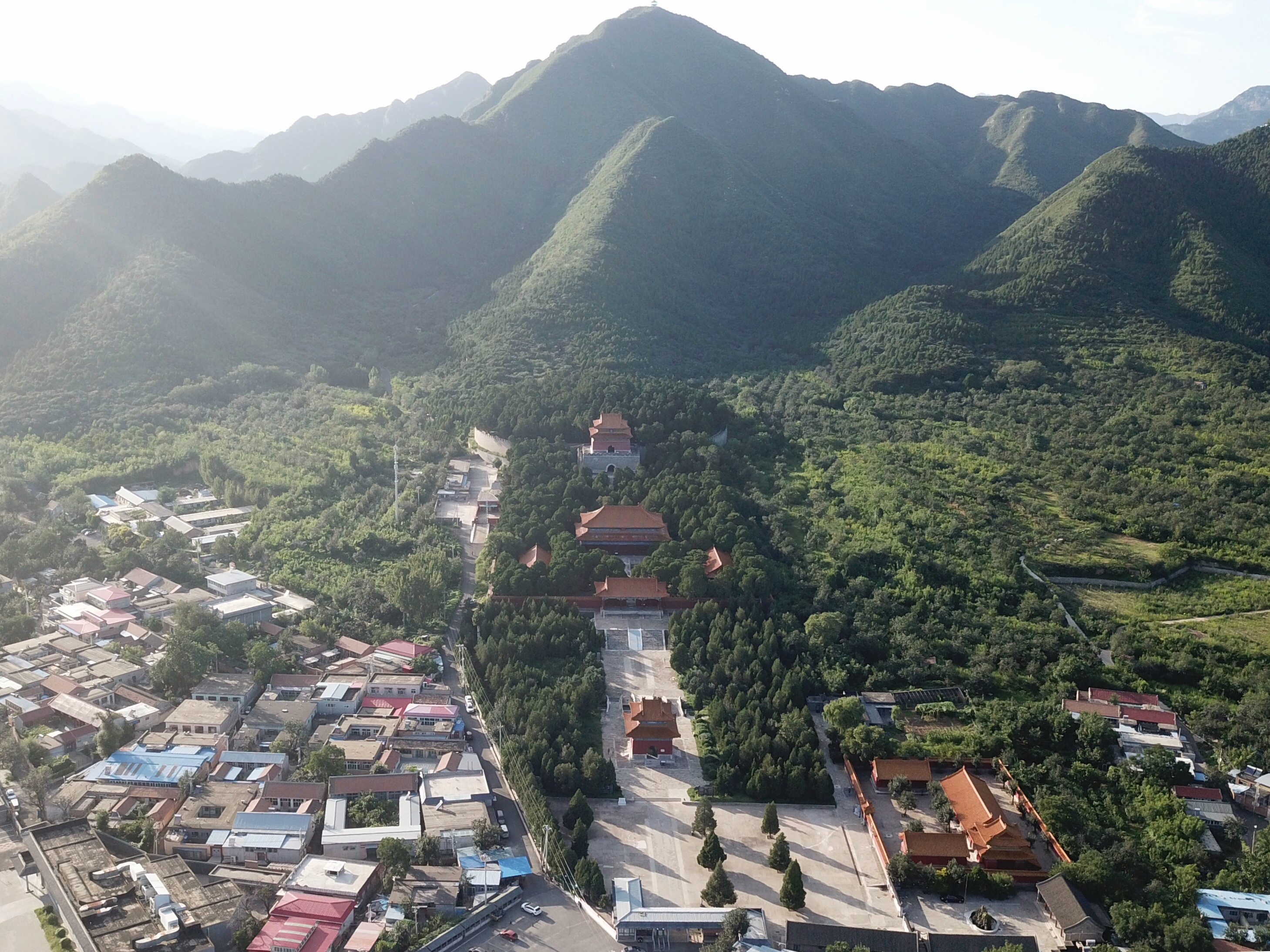 The Zhaoling of Ming Dynasty mausoleum where the Longqing Emperor and his wife were buried.